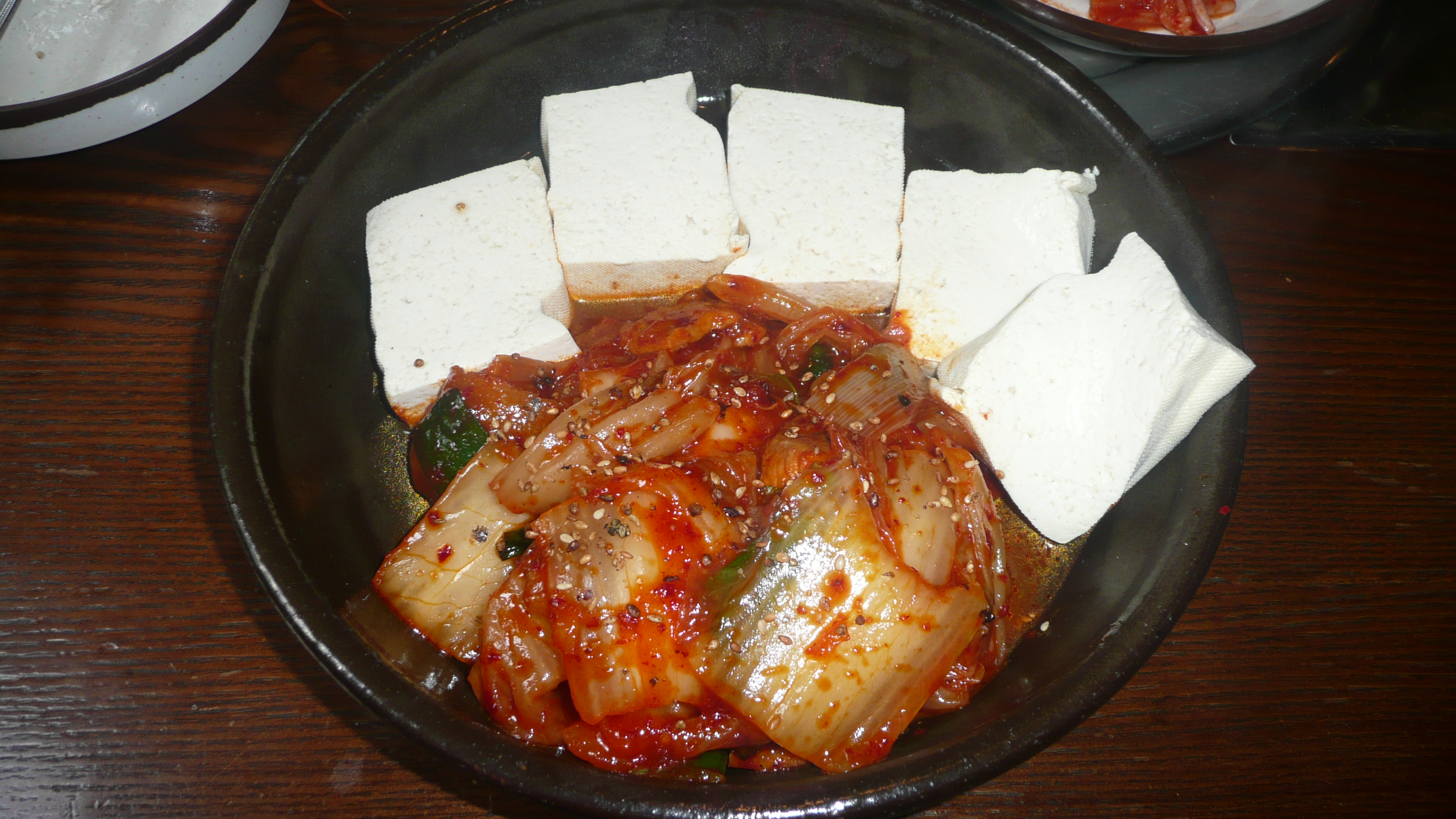 Kimchi with Tofu in a restaurant in Seoul